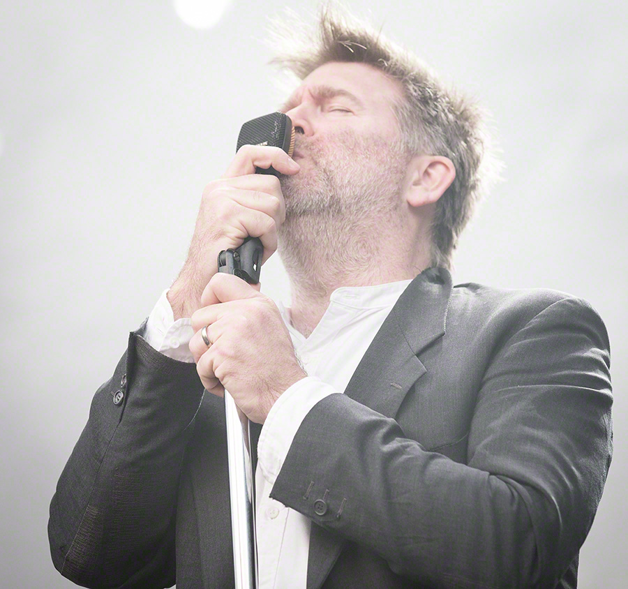 LCD Soundsystem performs at Quart Festival in Kristiansand on 28. June 2016. Lineup:James Murphy (vocal)Nancy Whang (keyboard)